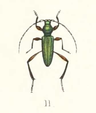 « Rhopalizida viridana » = Rhopalizida viridana